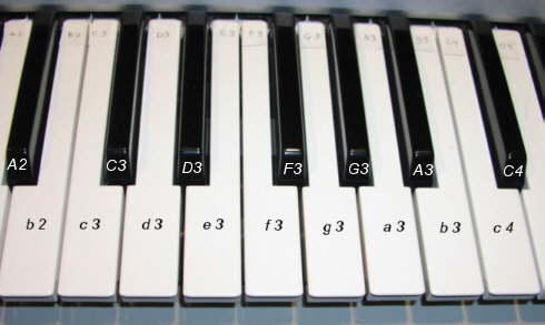 Piano keys and notes. (Brett Rumpel